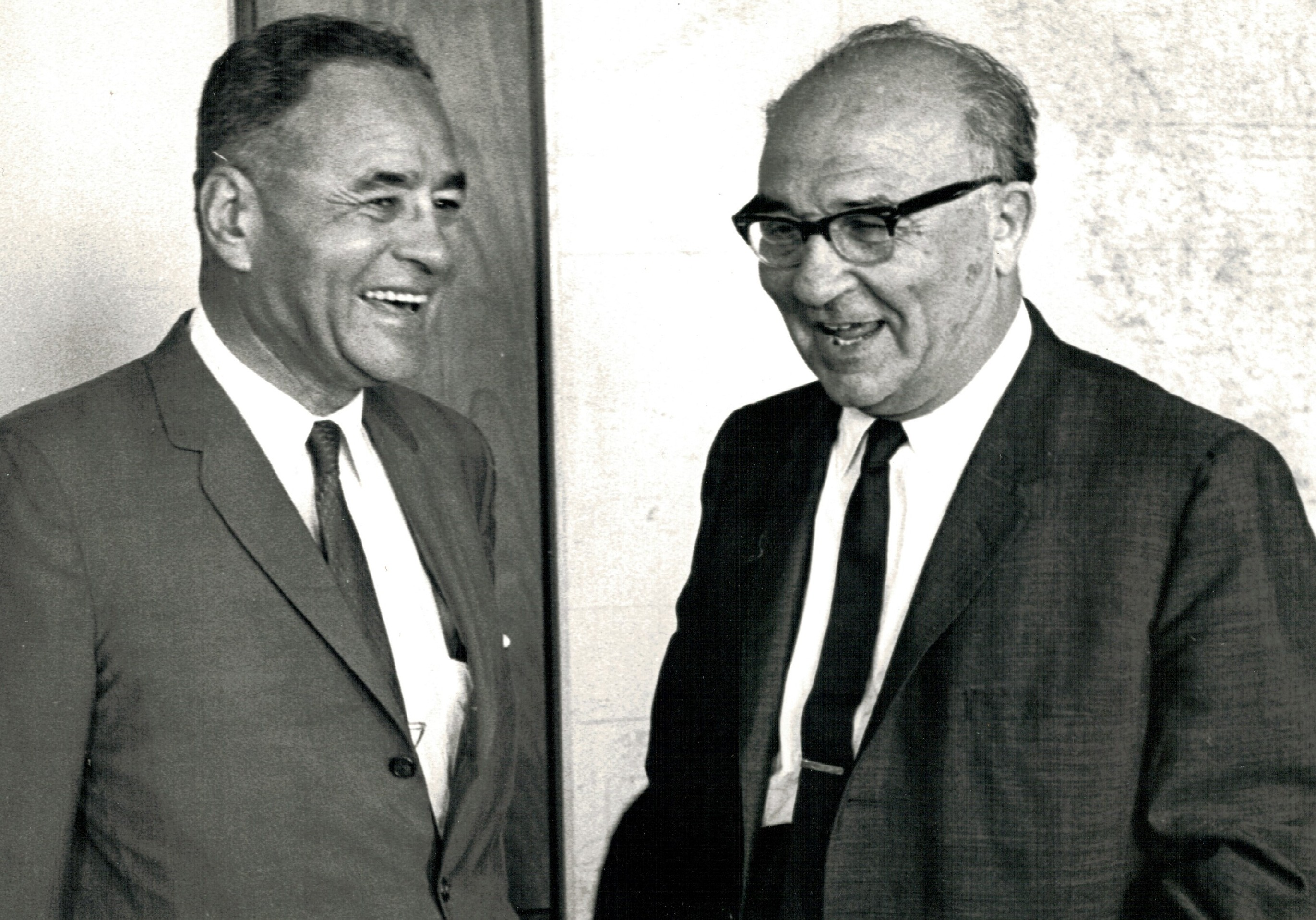 Israeli Prime Minister Levi Eshkol meeting with Nobel Peace Prize Laureate Ralph Bunceh, July 6, '66.